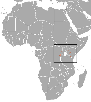 Grant's Forest Shrew (Sylvisorex granti) range